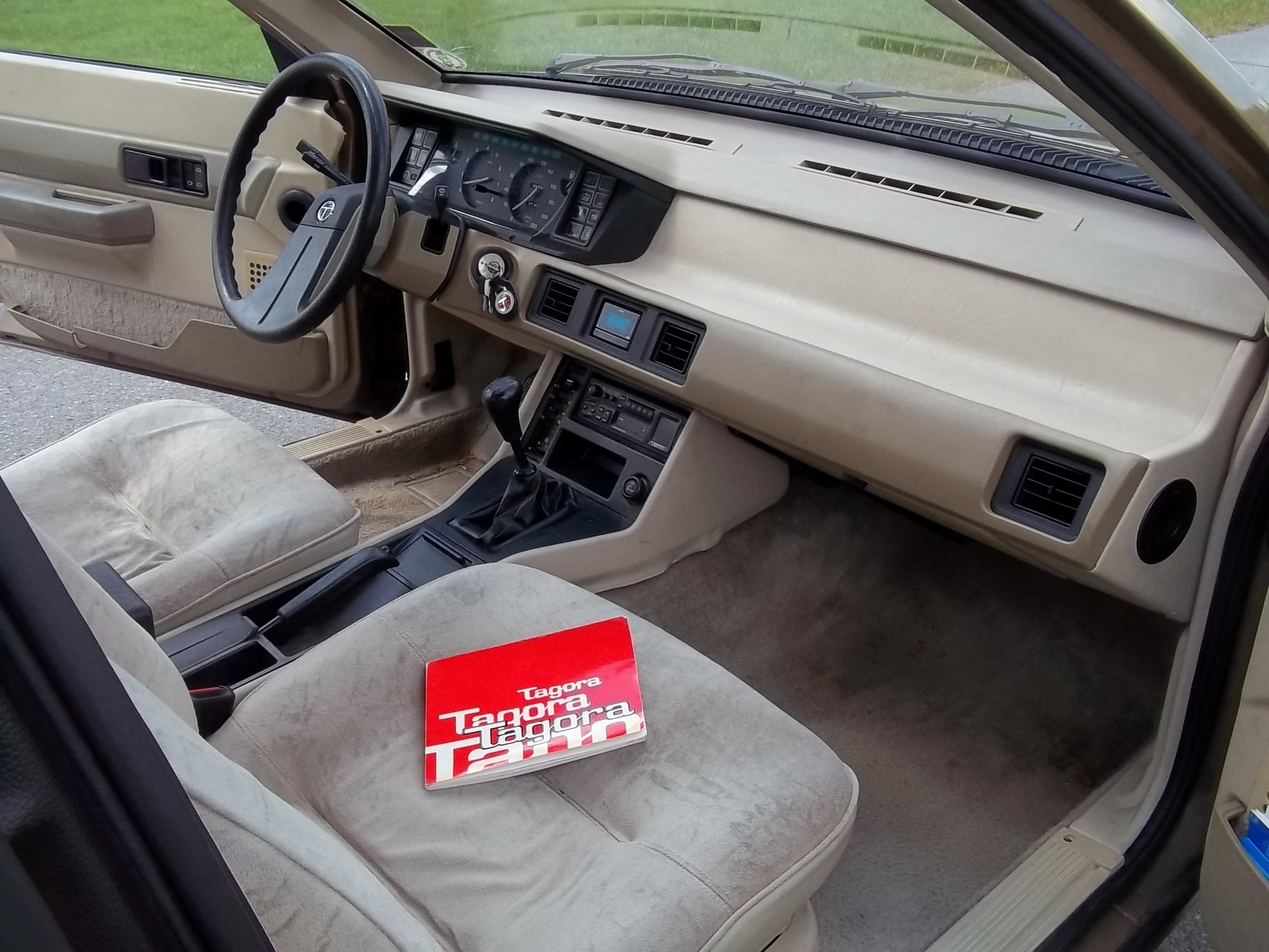 Talbot Tagora GLS 2.2